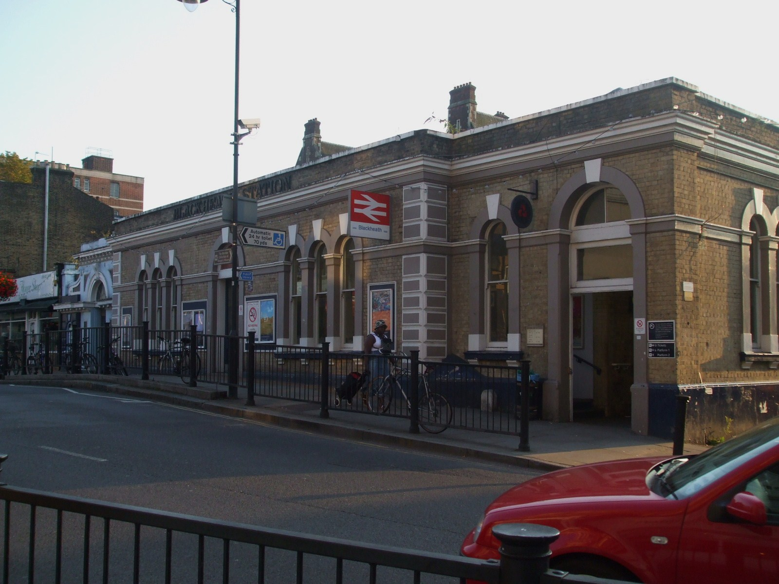 Blackheath station building